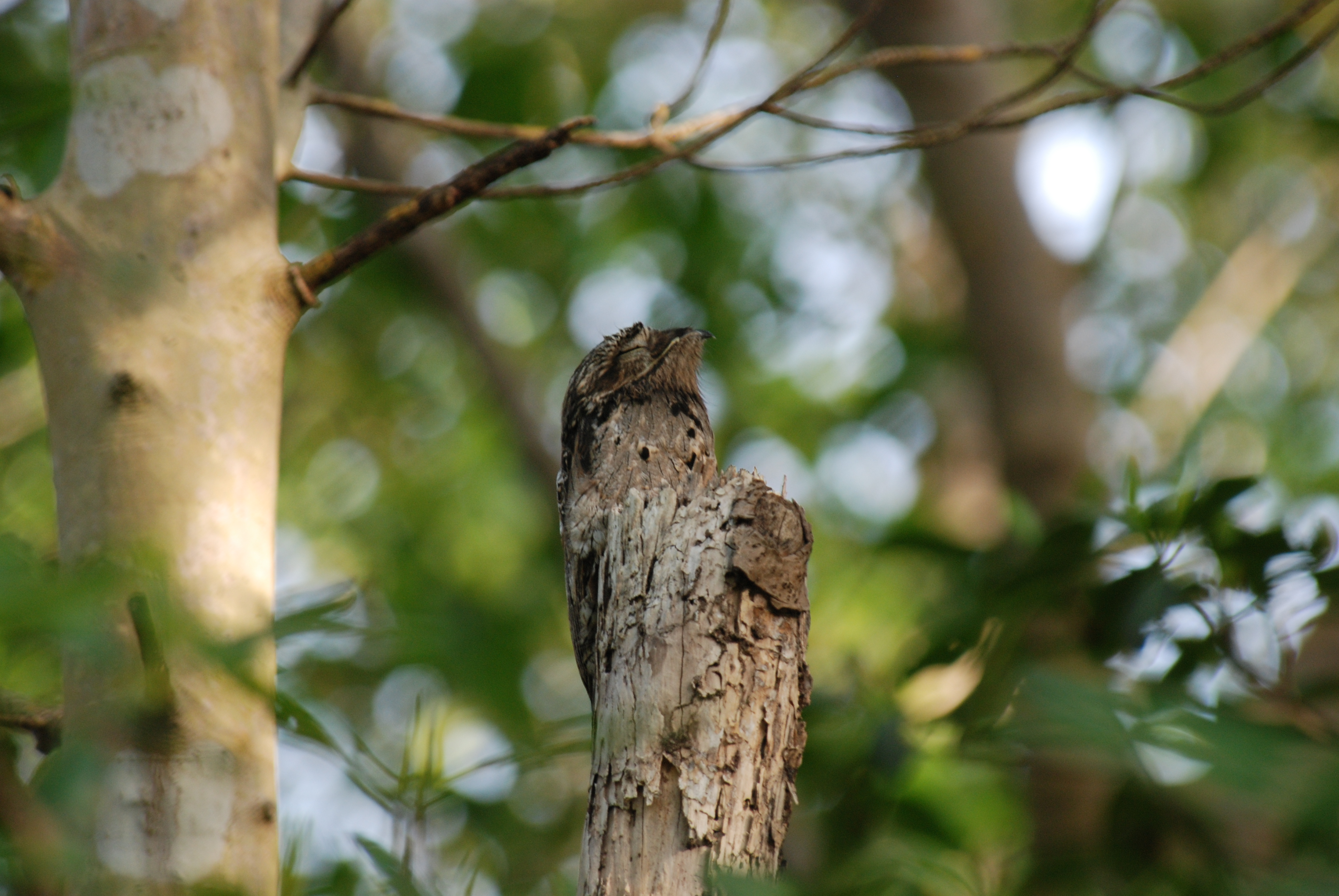 Common Potoo (Nyctibius griseus). We saw this nocturnal bird in Caroni Swamp, Trinidad. It hunts at night but during the day it perches upright on a tree stump, and is very hard to see as it looks like part of the stump because it stays so completely still as it perches.